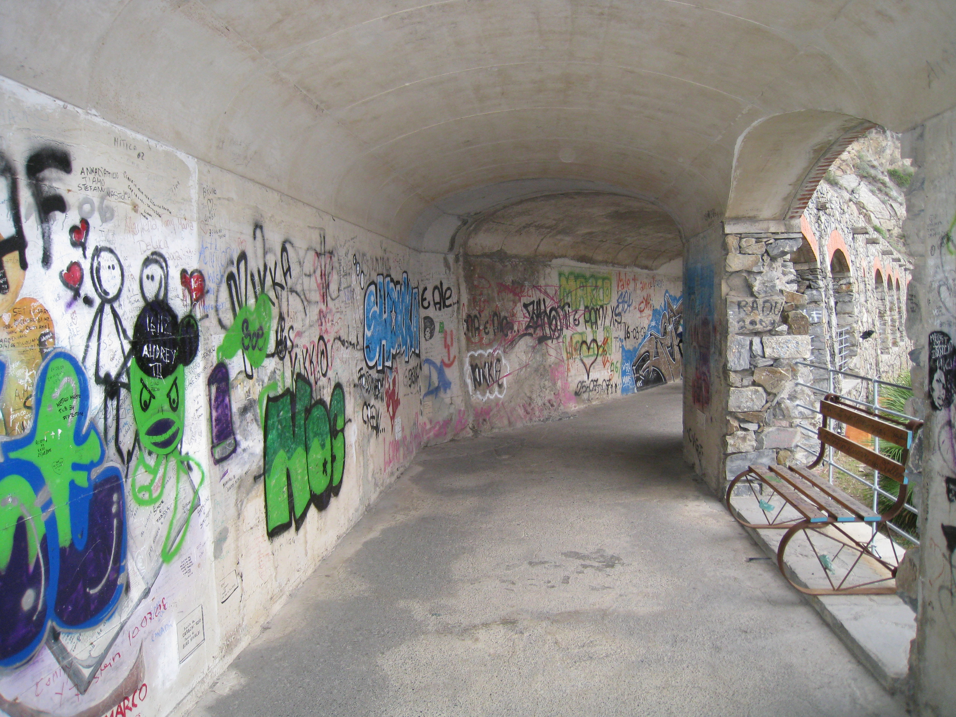 Graffitti at tonnel Via dell’Amore, Cinque Terre, Italy